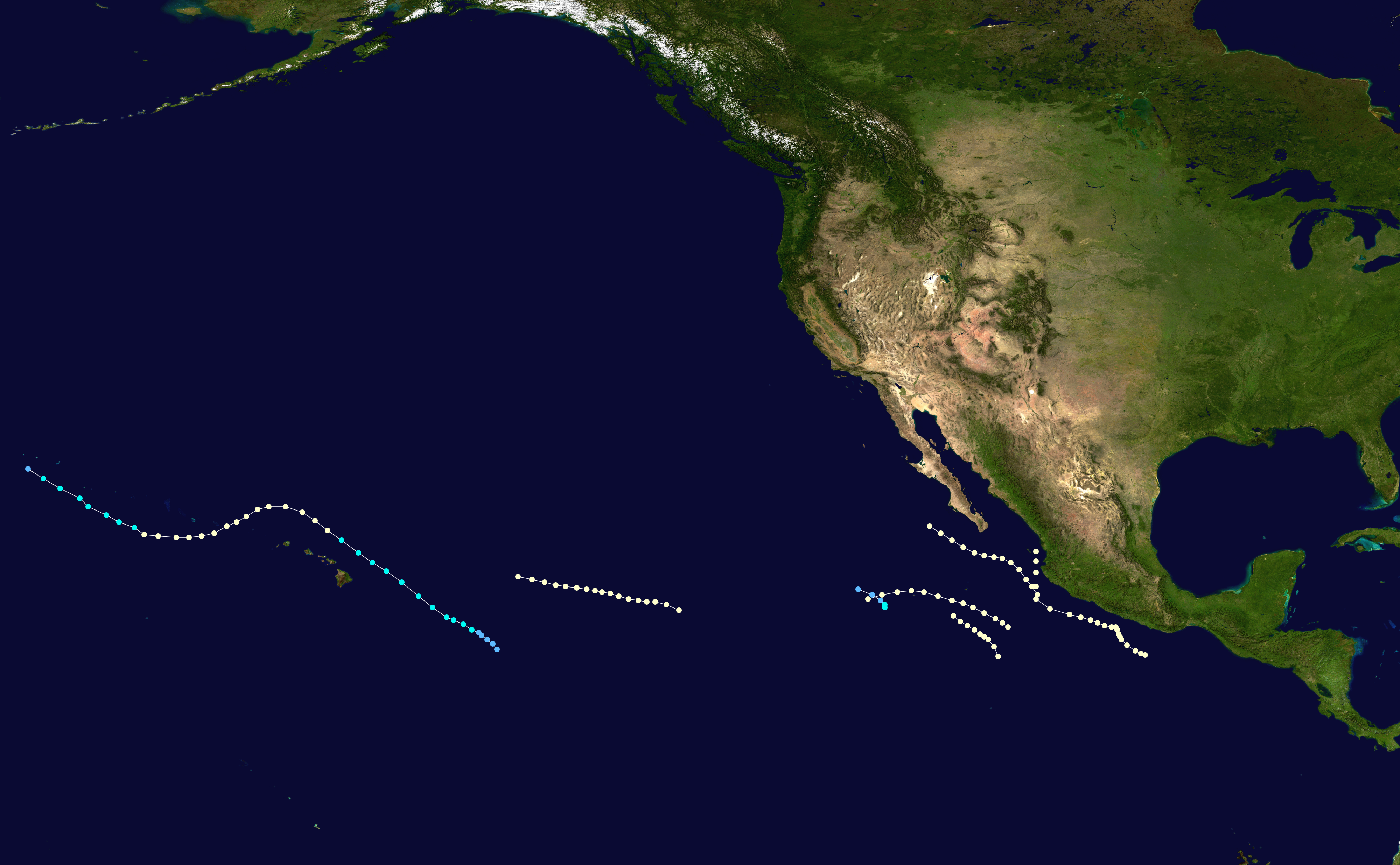 This map shows the tracks of all tropical cyclones in the 1950 Pacific hurricane season. The points show the location of each storm at 6-hour intervals. The colour represents the storm's maximum sustained wind speeds as classified in the Saffir-Simpson Hurricane Scale (see below), and the shape of the data points represent the type of the storm. Saffir–Simpson hurricane wind scale Tropical depression≤38 mph≤62 km/h Category 3111–129 mph178–208 km/h Tropical storm39–73 mph63–118 km/h Category 4130–156 mph209–251 km/h Category 174–95 mph119–153 km/h Category 5≥157 mph≥252 km/h Category 296–110 mph154–177 km/h Unknown Storm typeTropical cycloneSubtropical cycloneExtratropical cyclone / Remnant low / Tropical disturbance